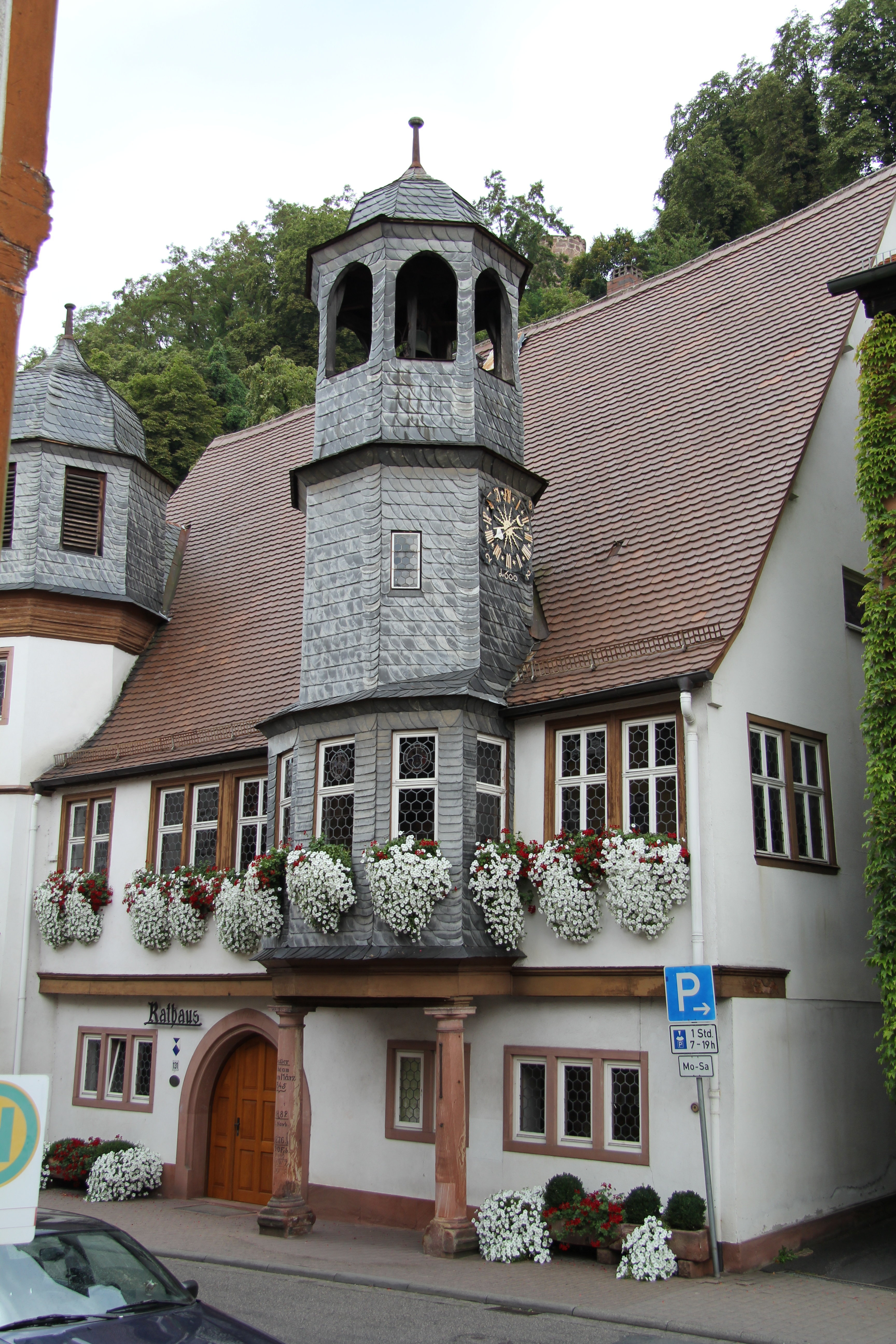 Town hall of Stadtprozelten in Bavaria / Germany